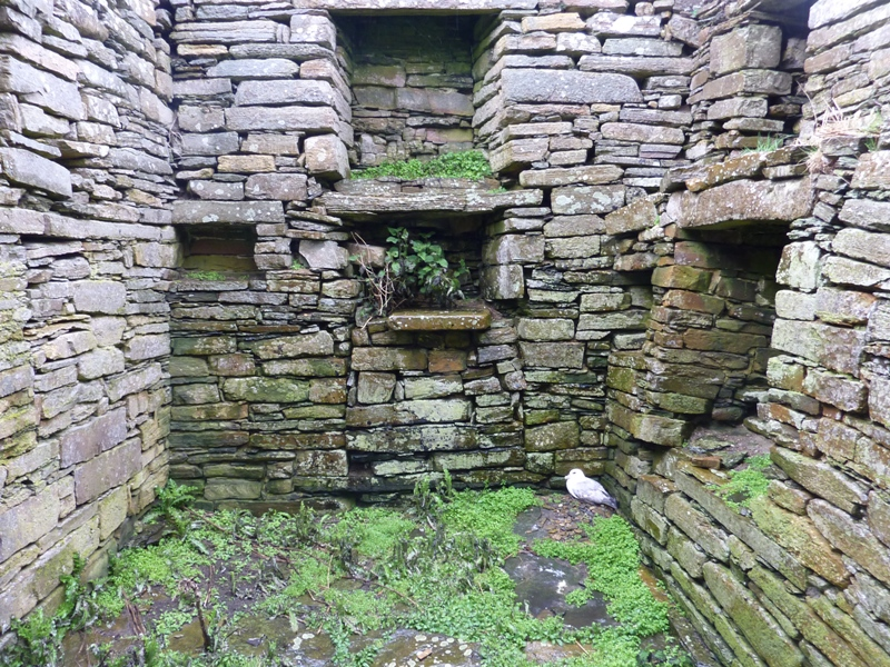 Eynhallow Church, Eynhallow, Orkney, Scotland - in the chancel looking east